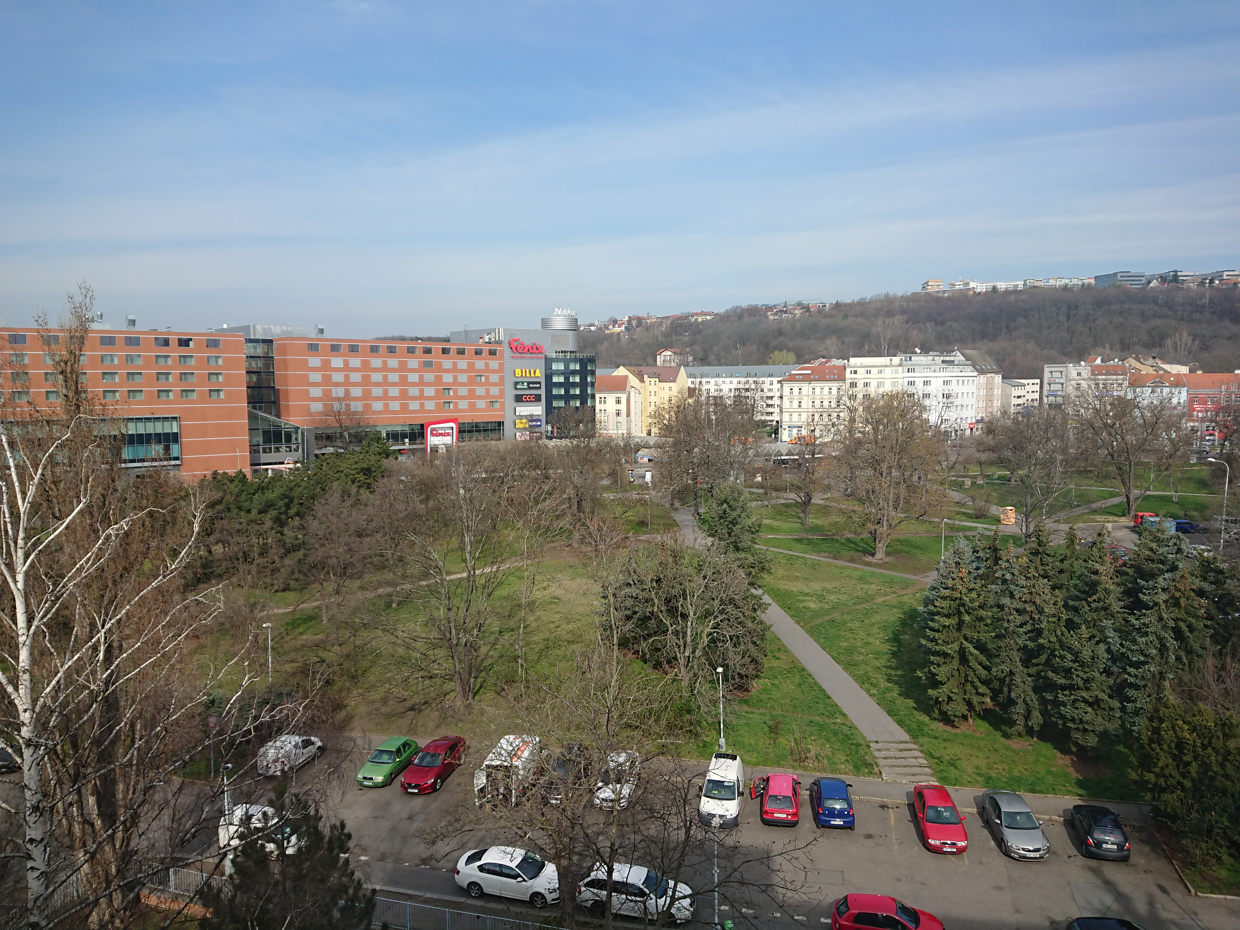 VIew of náměstí OSN, Prague, Czech Republic from the fifth floor of Gymnázium Špitálská